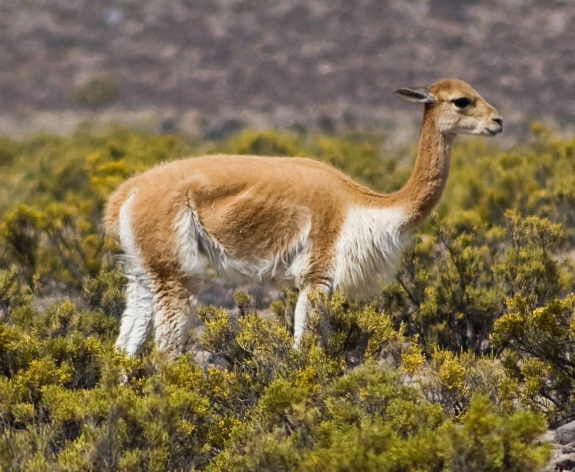 A vicuña (Vicugna vicugna) grazing near Arequipa, Peru.